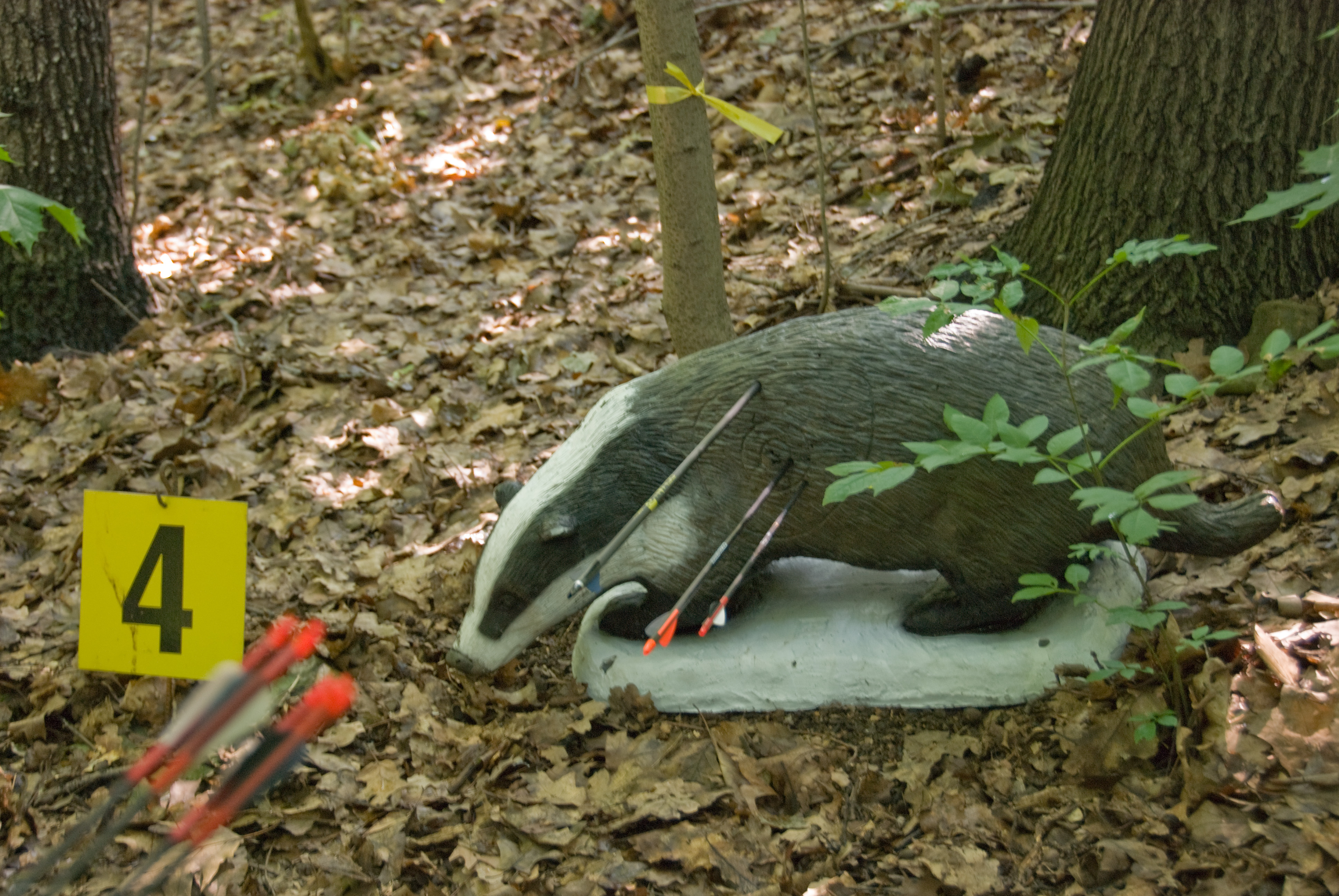 3D target badger with arrows